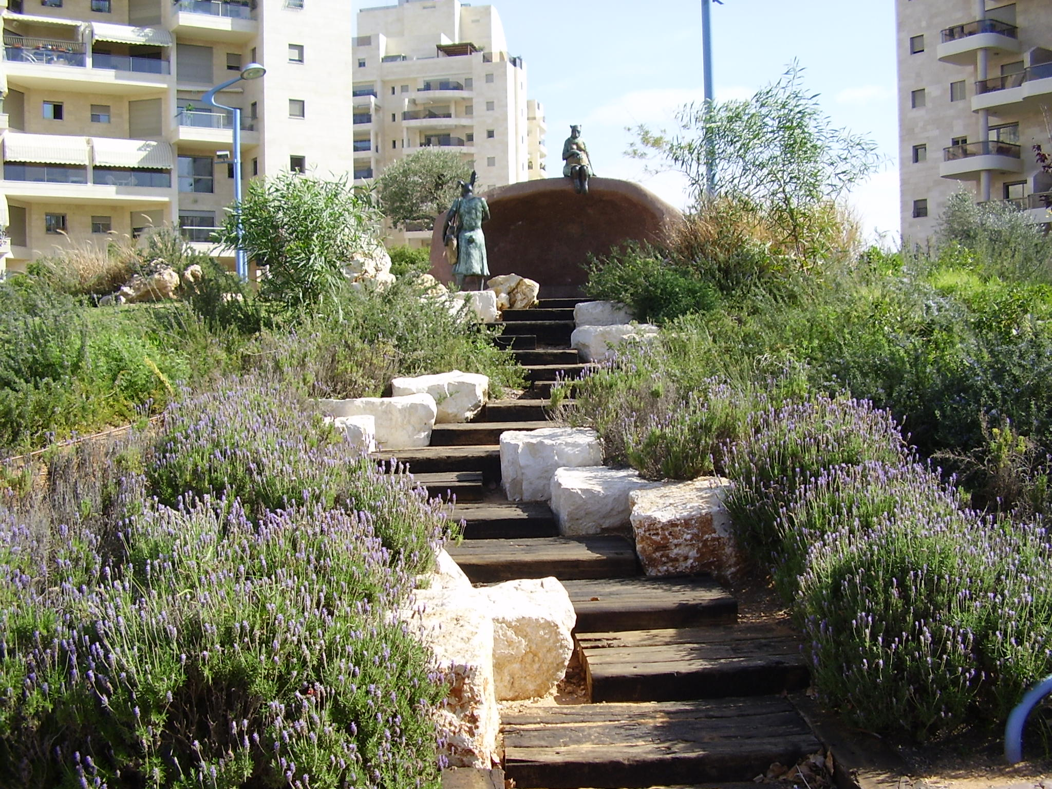 A flat to Rent-Story garden in Holon